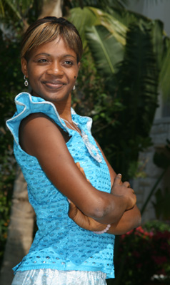 Miss Sierra Leona 2007 Fatmata Turay in Miss World 07, Sanya, China